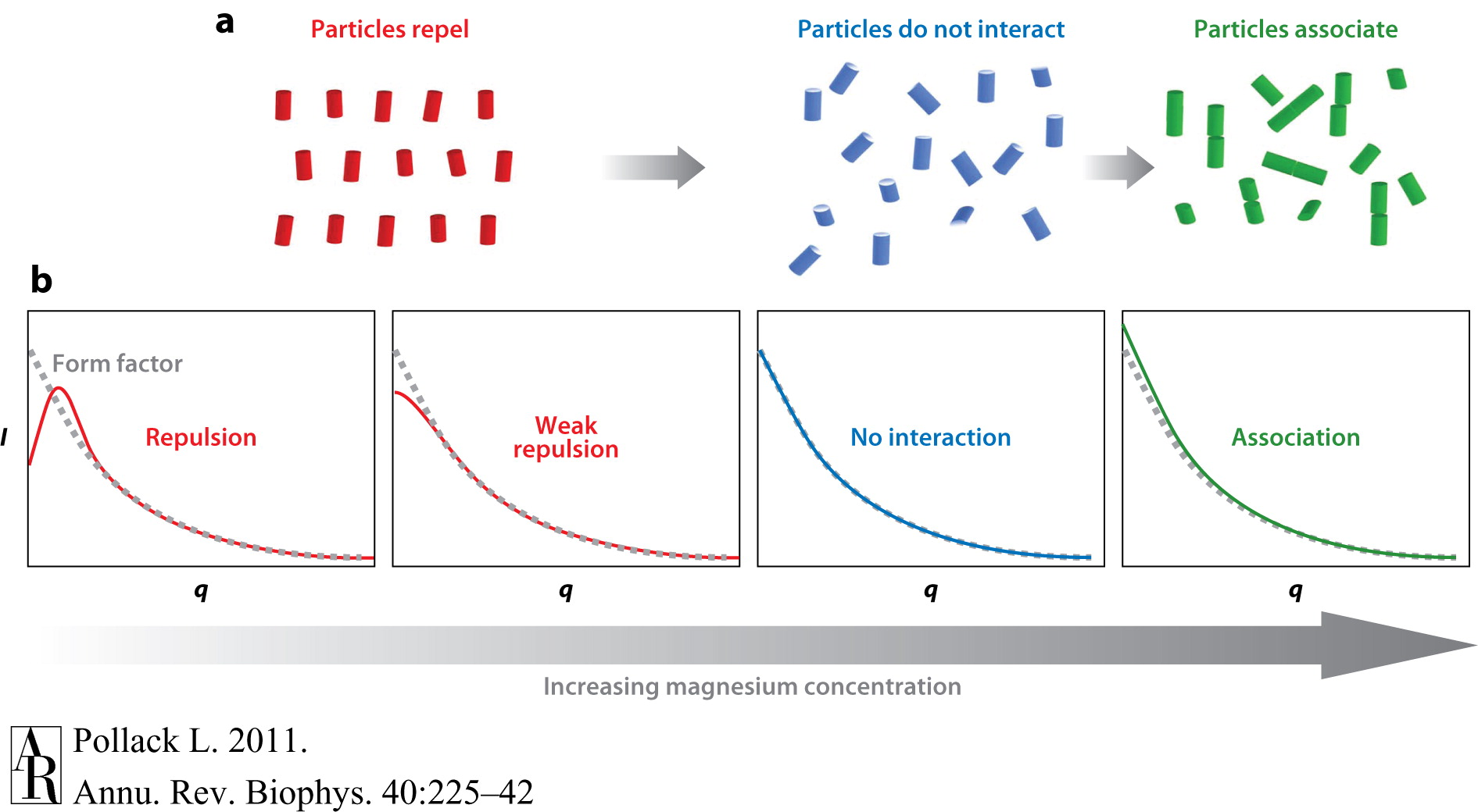 affect of polymer interactions on scattering